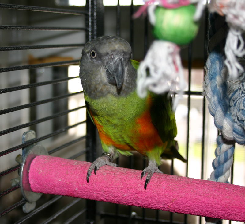 Senegal Parrot (Poicephalus senegalus). In a cage perching on a special perch to ware claws down naturally.